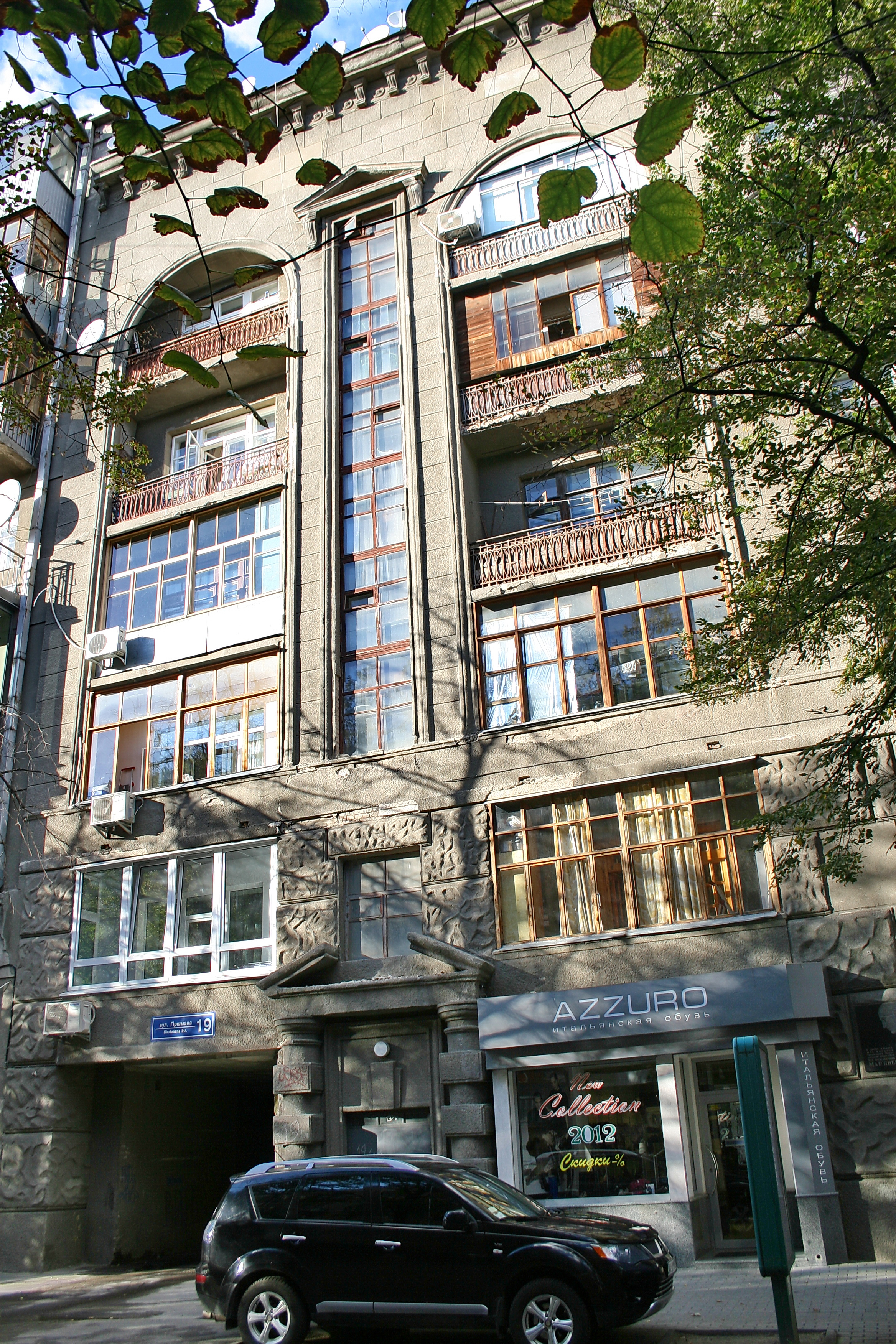 The house where Maryanenko lived - People's Artist of the USSR